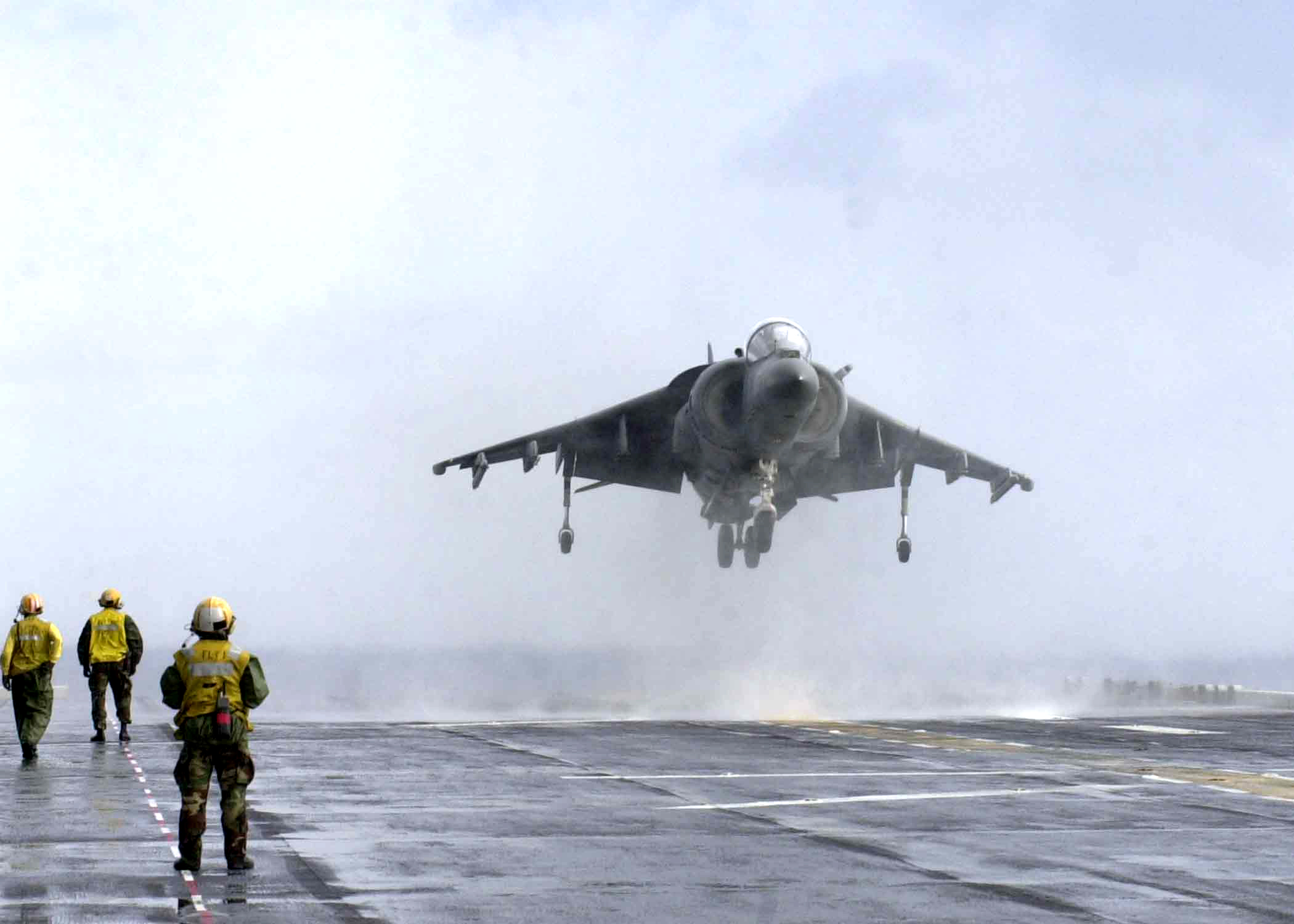 010926-N-5732L-537.jpg At sea aboard USS Bataan (LHD 5) Sept. 26, 2001 -- An AV-8B "Harrier" returns from routine training maneuvers and makes a vertical landing on the flight deck aboard the amphibious warfare ship USS Bataan. U.S.Navy photo by Photorapher's Mate 2nd Class Jimmy Lee. (RELEASED)